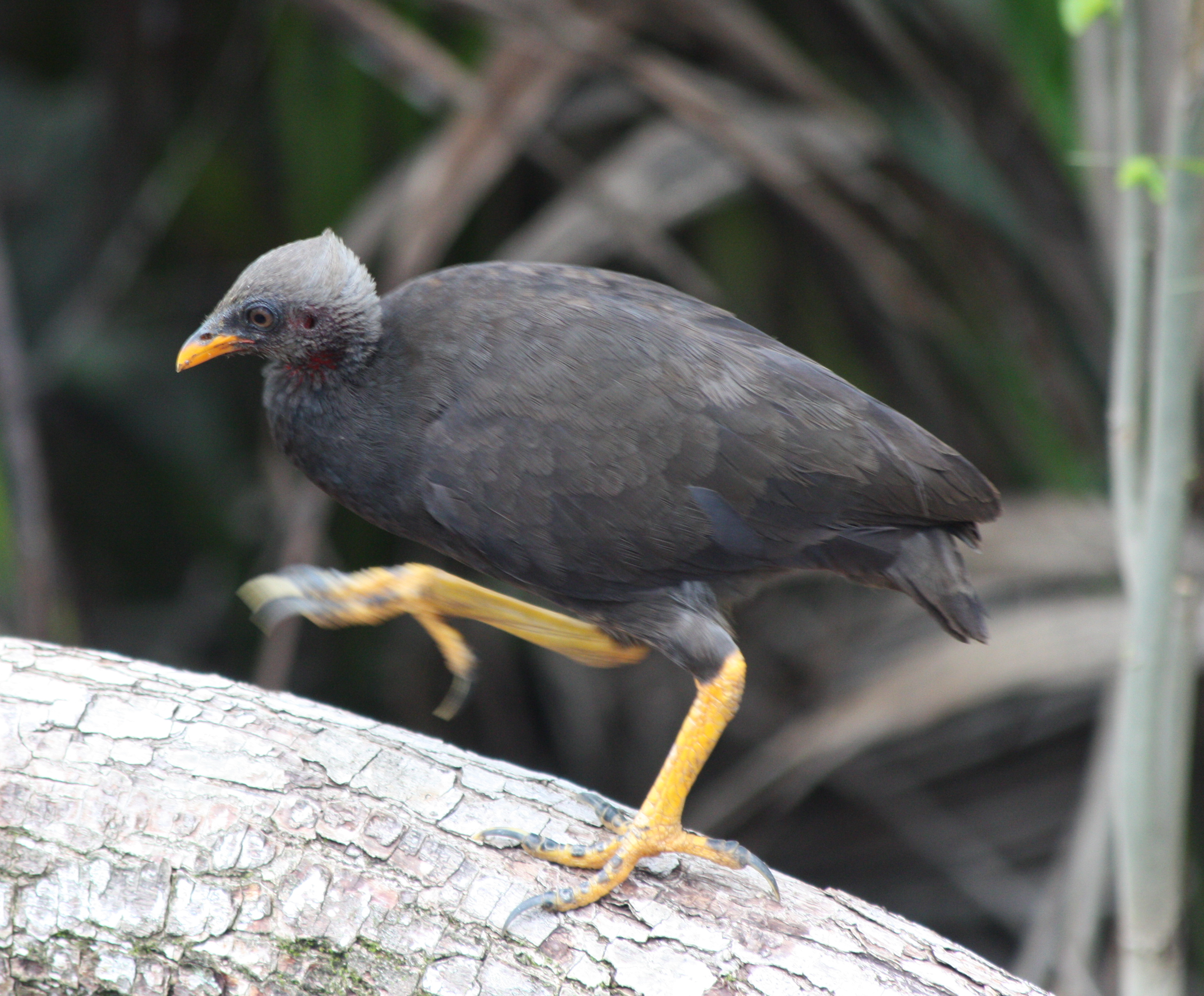 Photos taken on the island of Sarigan, Commonwealth of the Northern Mariana Islands, in June 2010. Micronesian megapode (Megapodius laperouse).